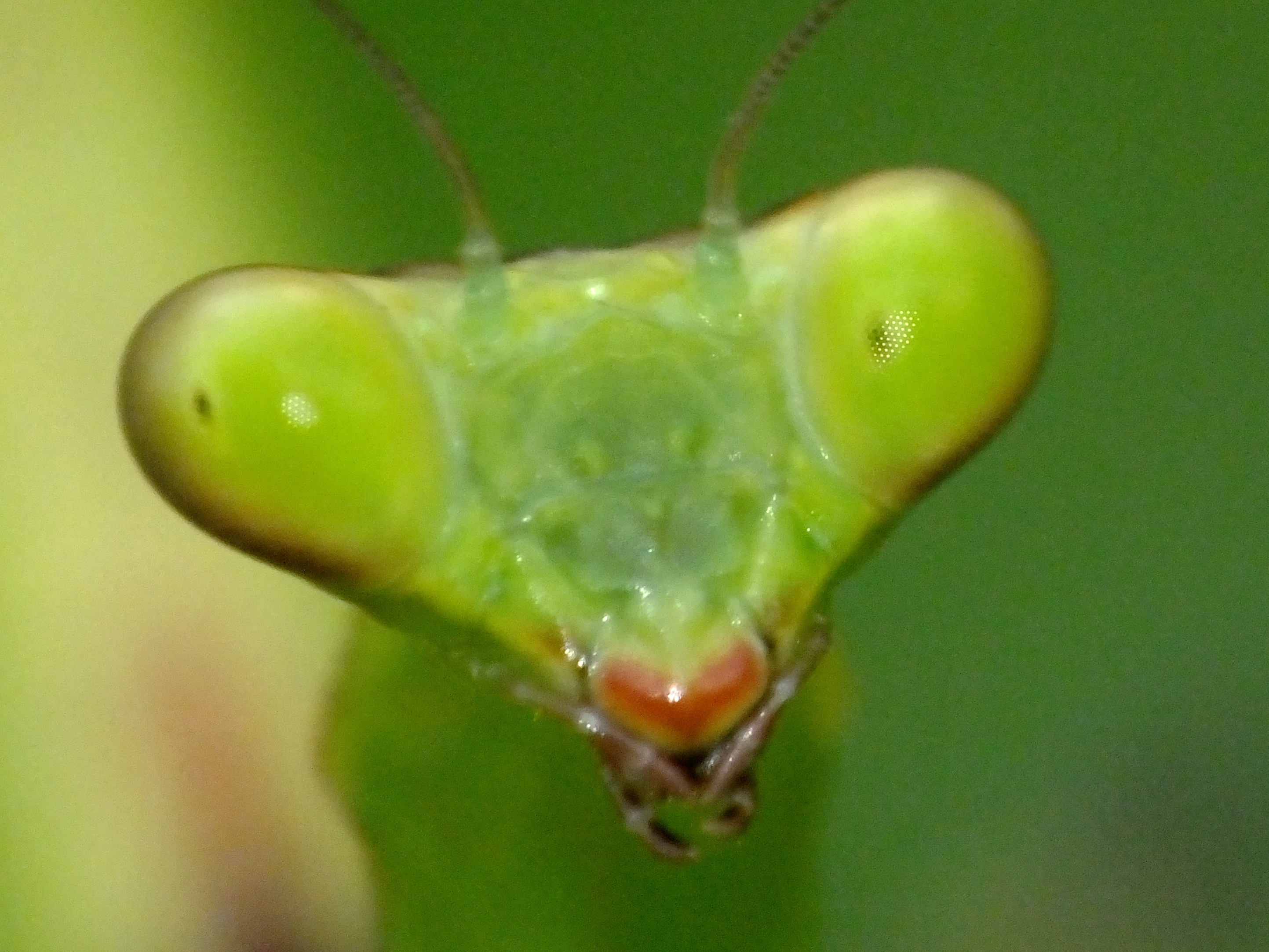 Saw at hillside.